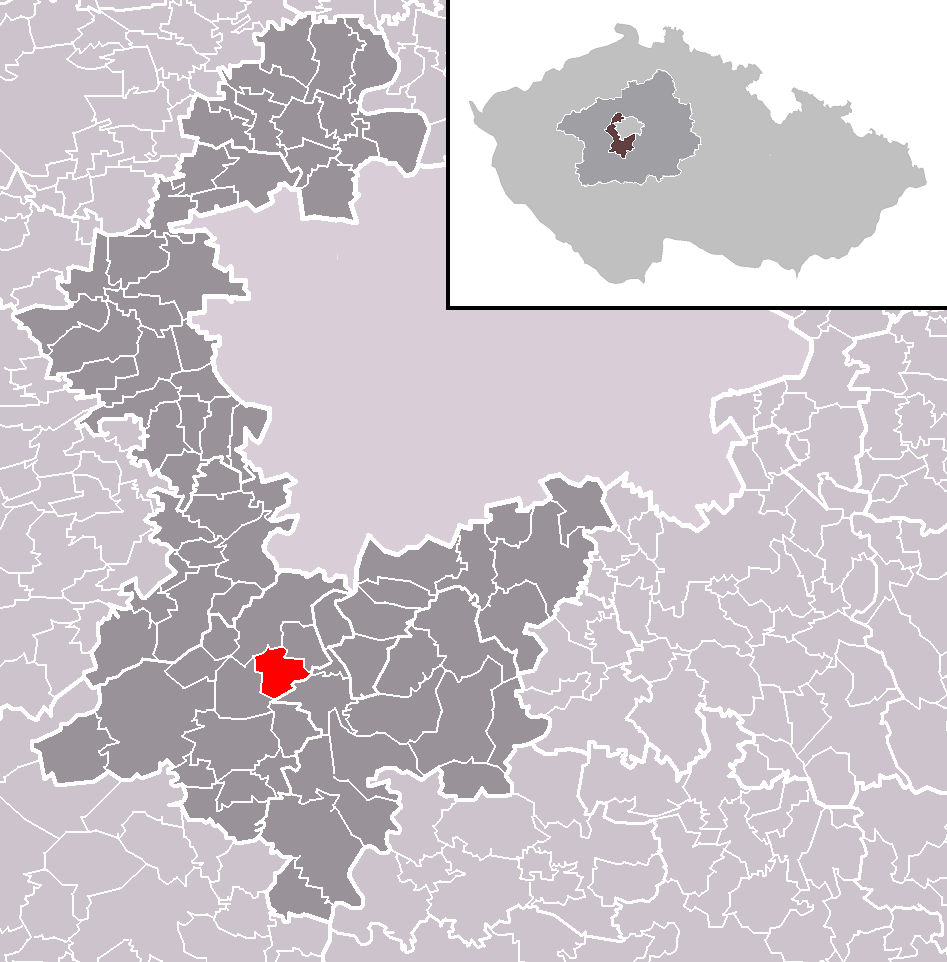 Location of Klínec municipality within Prague-West District and administrative area of Černošice as a Municipality with Extended Competence.